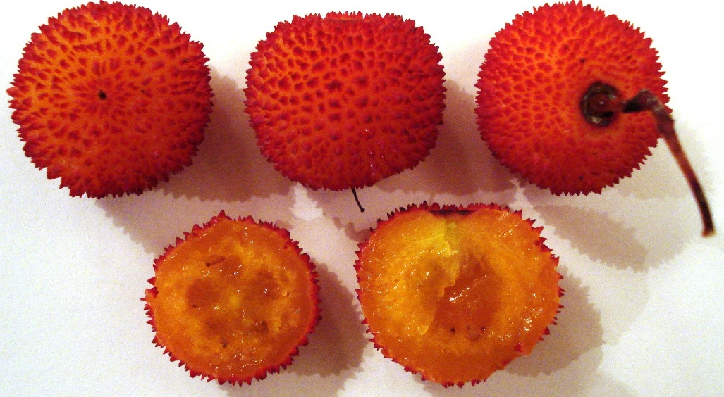 Arbutus unedo: fruits